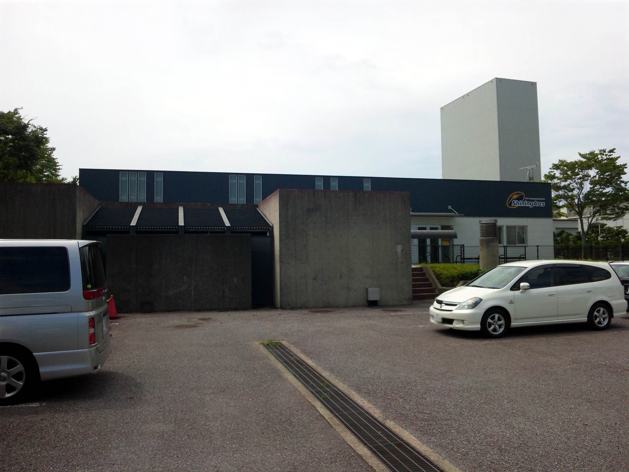 NTT Com Shiining Earks